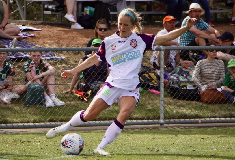 Round2CanPer - StantonCorner